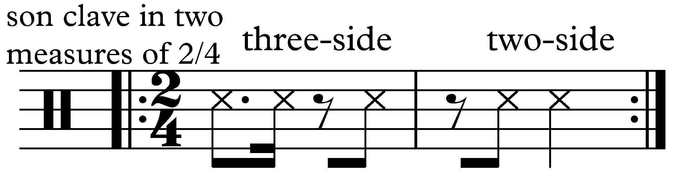 This is an example of son clave in 2/4, showing the 3 side and the 2 side